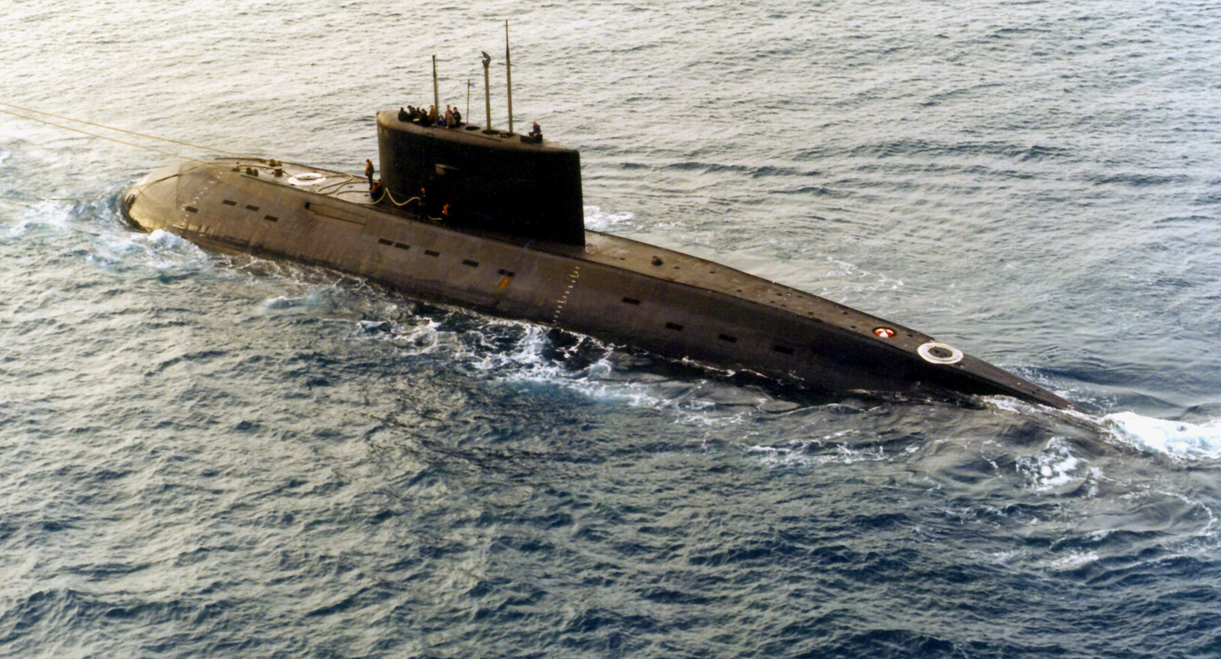 A Russian-built, Kilo-class diesel submarine recently purchased by Iran, is towed by a support vessel in this photograph taken in the central Mediterranean Sea during the week of December 23. The submarine and the support ship arrived at Port Said, Egypt, on Tuesday and were expected to begin transiting the Suez Canal today, Jan. 2, 1996. Ships and aircraft from the U.S. Navy's Sixth Fleet are tracking the submarine, which has been making the transit on the surface. This is the third Kilo-class submarine the Iranians have purchased from Moscow.